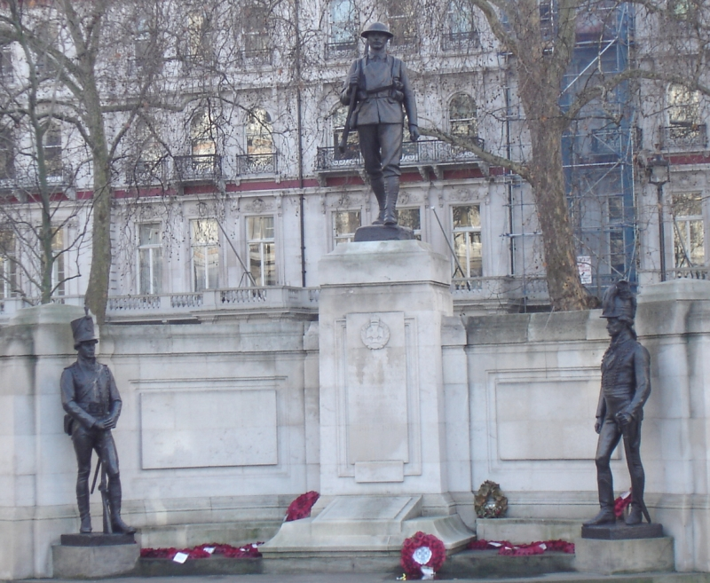 Rifle Brigade Memorial-Grosvenor Gardens